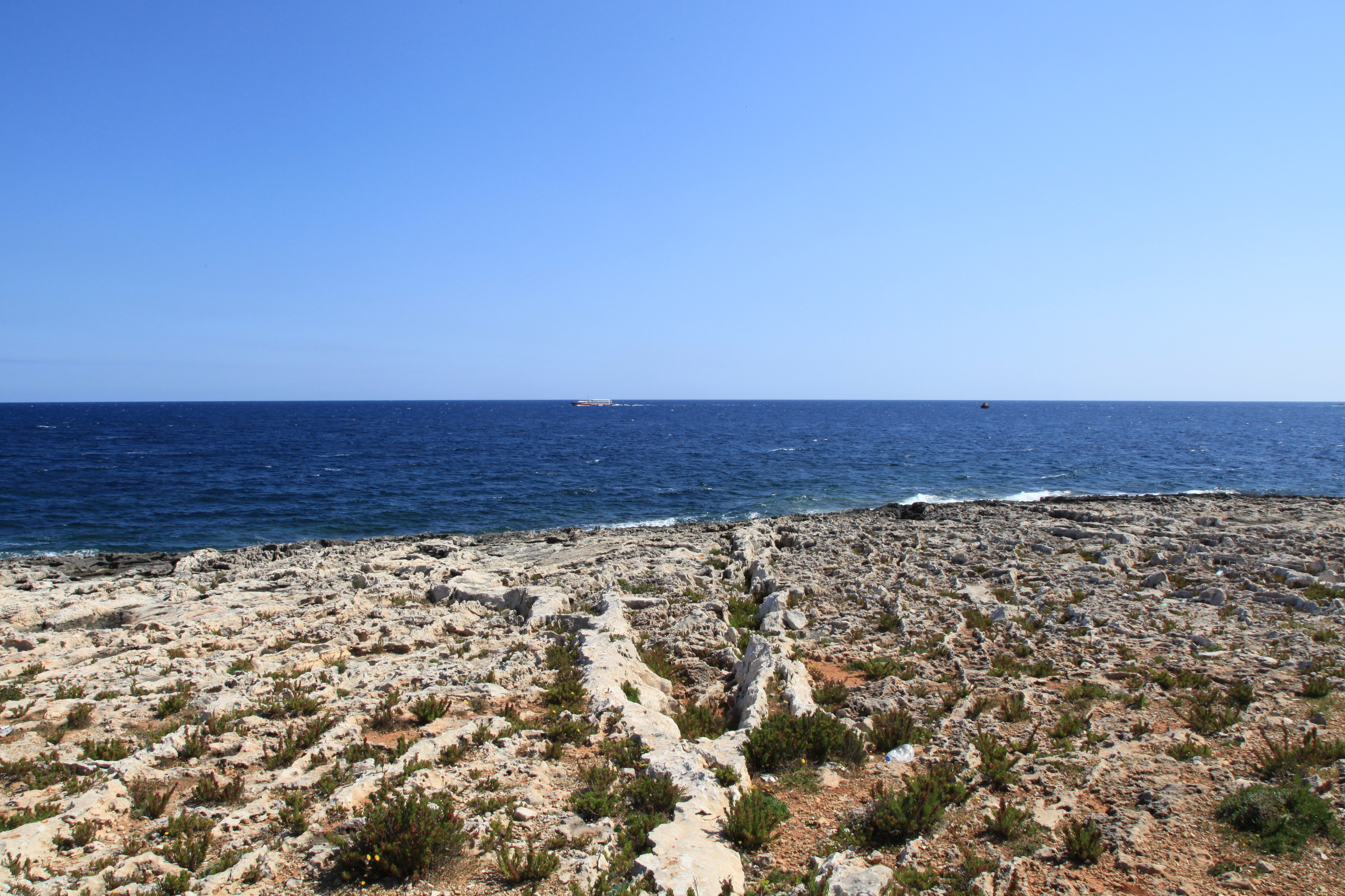 St. Mark's Tower peninsula in Naxxar, Malta